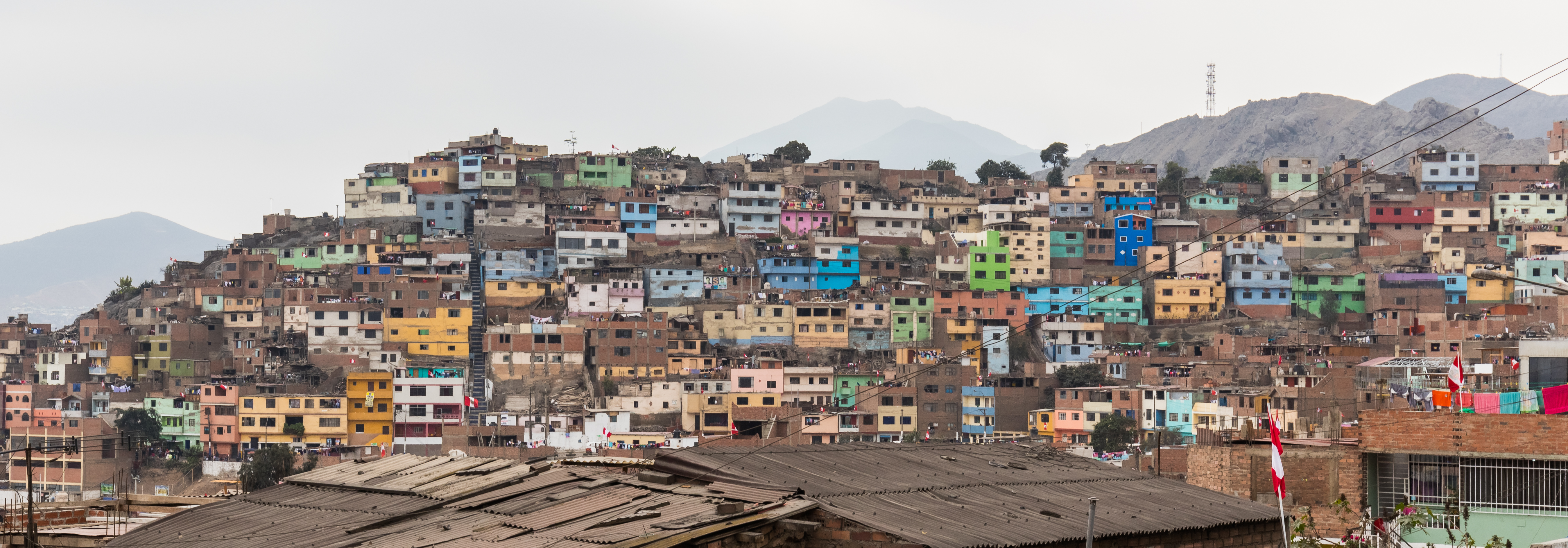 San Cristobal hill, Lima, Peru